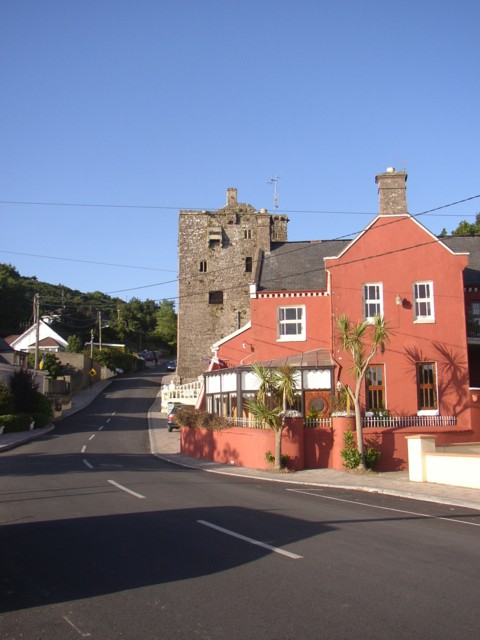 Photo of Ballyhack Castle, Co. Wexford with the Old Schoolhouse (1896) in the foreground. The castle was built by the Knights Templar c.1450, and now contains a small museum.